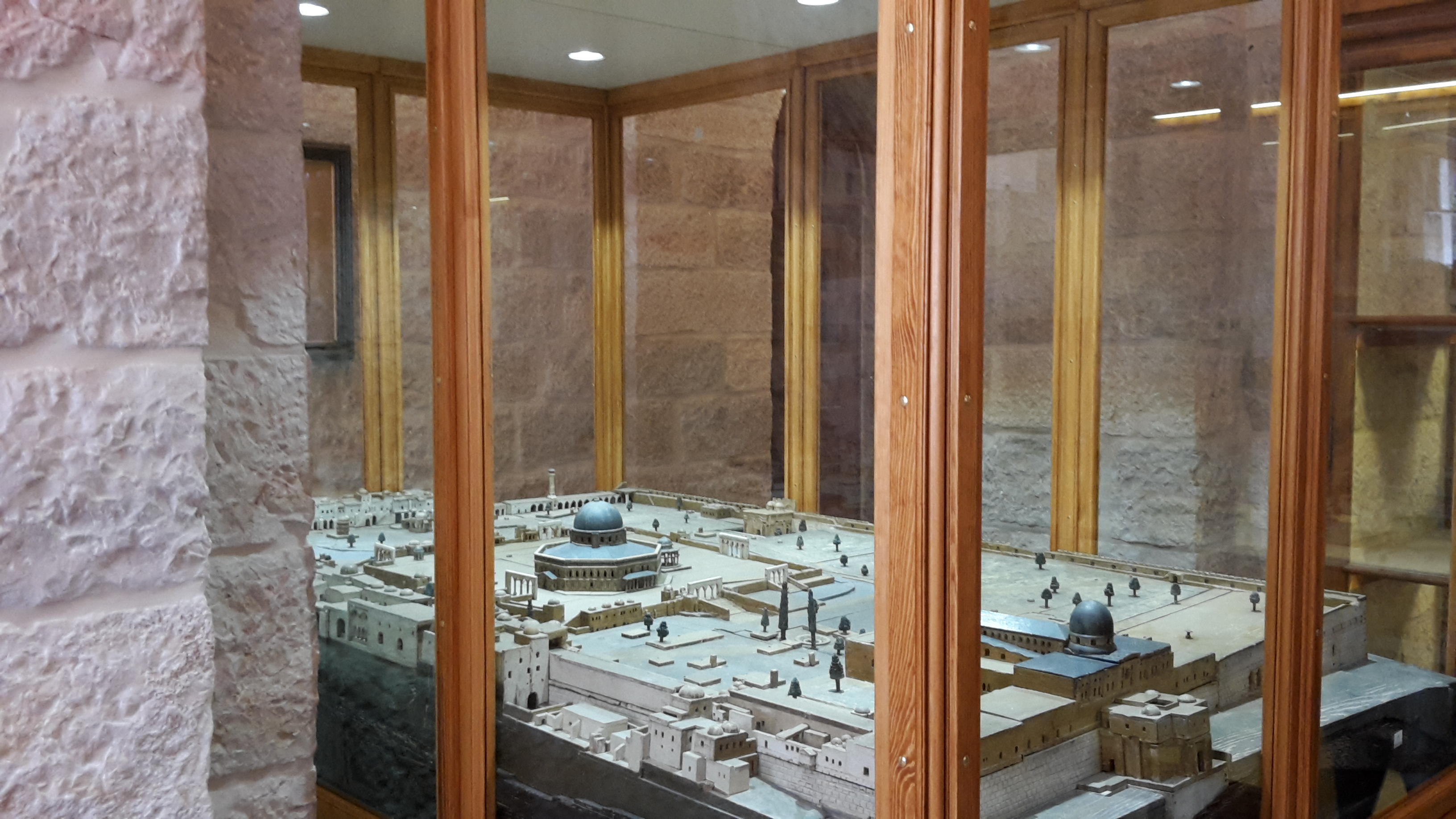 Model of the Temple Mount in Jerusalem, placed in the Paulus-Haus Museum in Paulus-Haus, Jerusalem